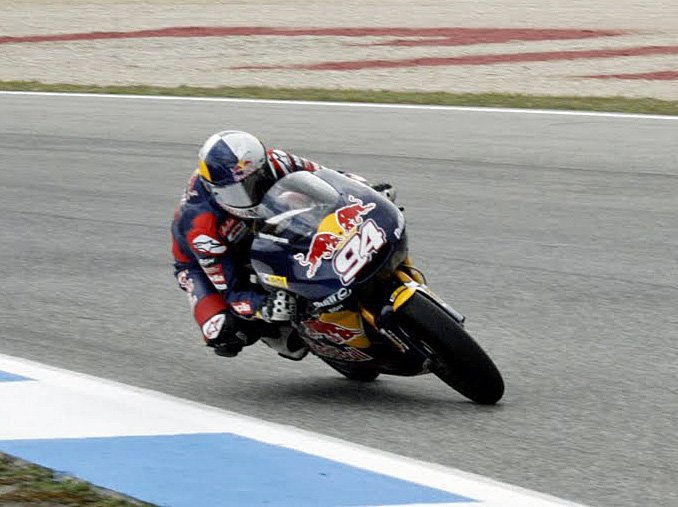 Jonas Folger 2011 Estoril